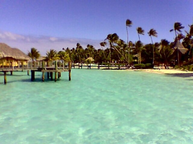 Bora Bora Pearl Beach Resort